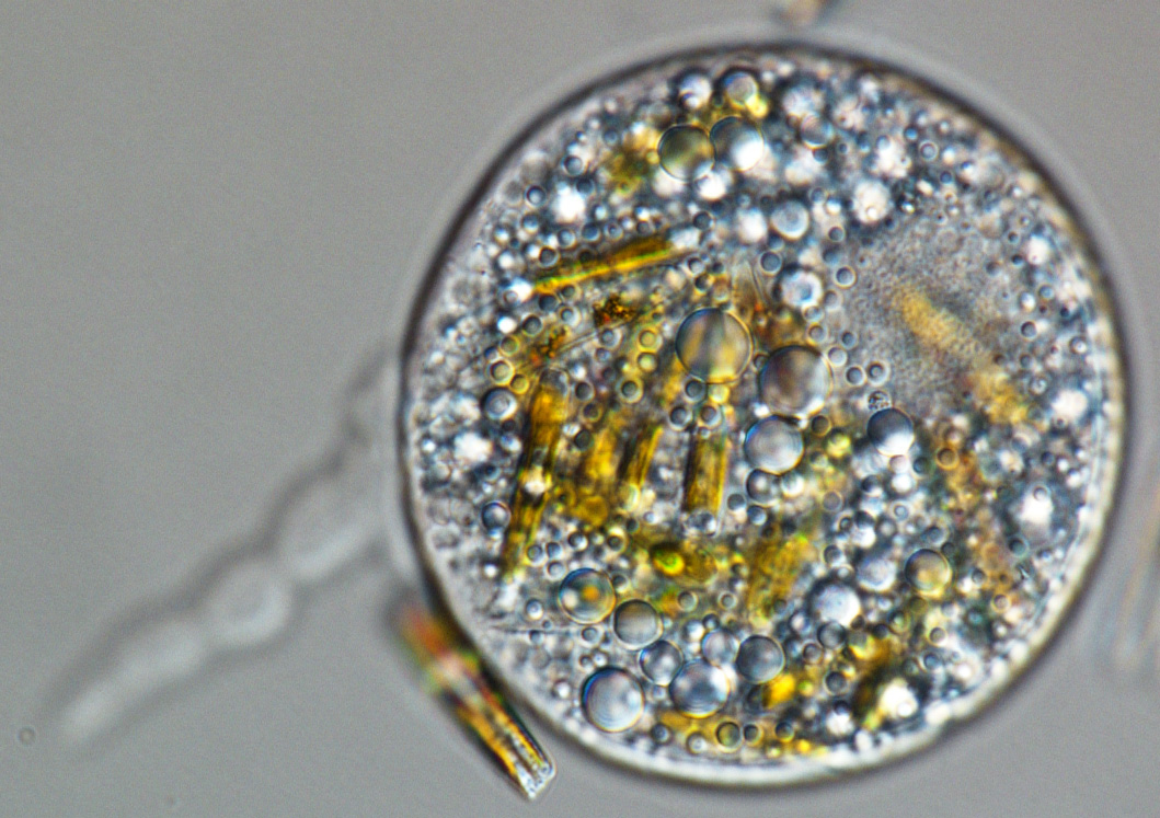 Undescribed Amoeba